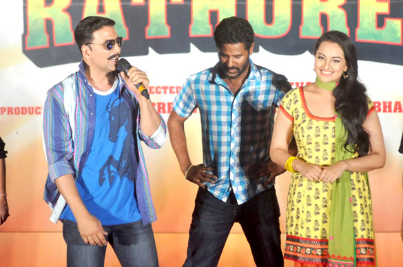 Celebrities at first look launch of Rowdy Rathore, Bollywood film, 2012